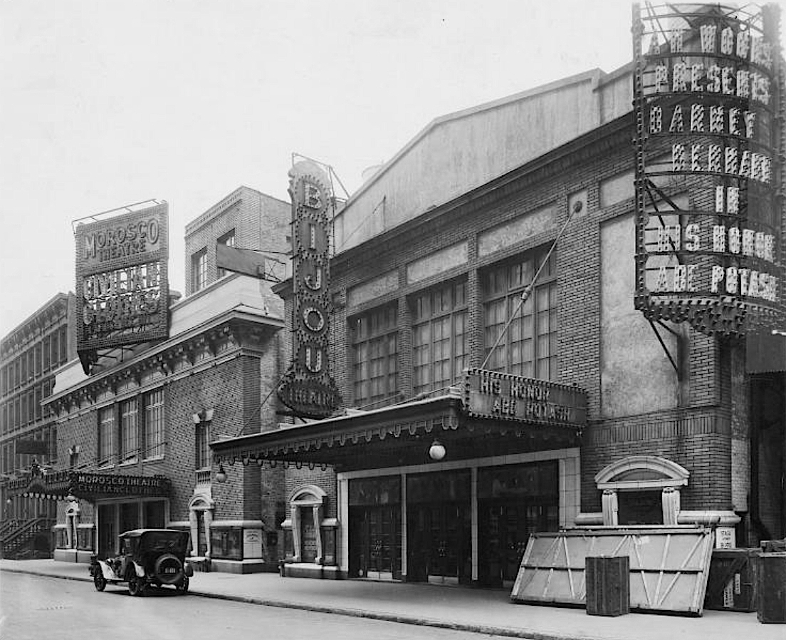 Bijou Theatre on West 45th St. and its marquee promoting the stage production His Honor, Abe Potash, which played from October 14, 1919 to April 1, 1920. Electrical sign reads: "A. H. Woods Presents Barney Bernard in His Honor Abe Potash". At left, the Morosco Theatre, with electric sign and marquee advertising the play Civilian Clothes, which played from September 12, 1919 to January 1, 1920. References: Woollcott, Alexander, "The Play. Potash Minus Perlmutter", The New York Times, October 15, 1919 Playbill Vault website, "His Honor: Abe Potash" Woollcott, Alexander, "The Play. A Farce-Comedy of Demobilization", The New York Times, September 13, 1919 Playbill Vault website, "Civilian Clothes"